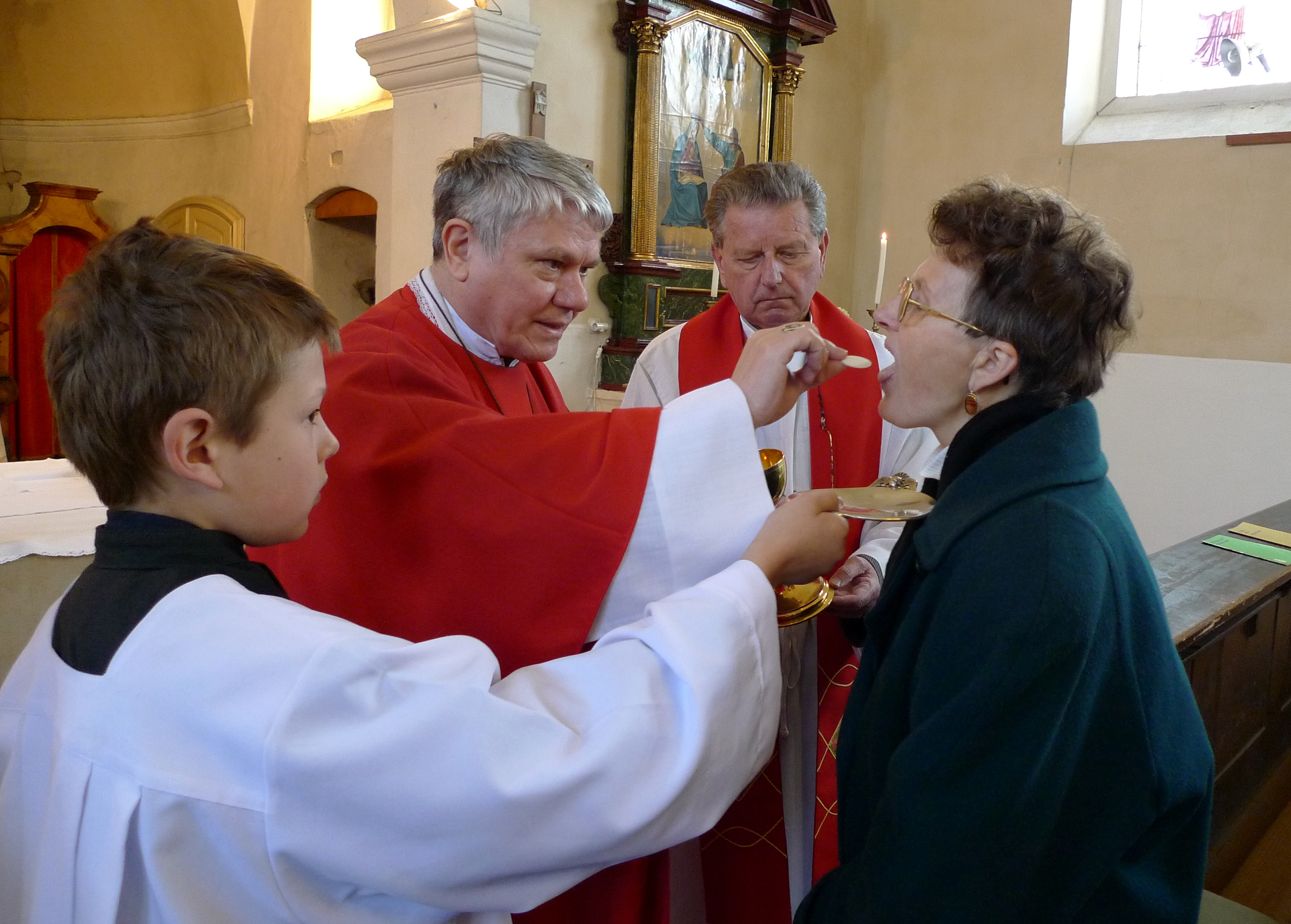 Czech theologian Václav Malý in Přerov nad Labem